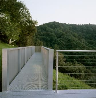 Photograph of landscape architecture feature